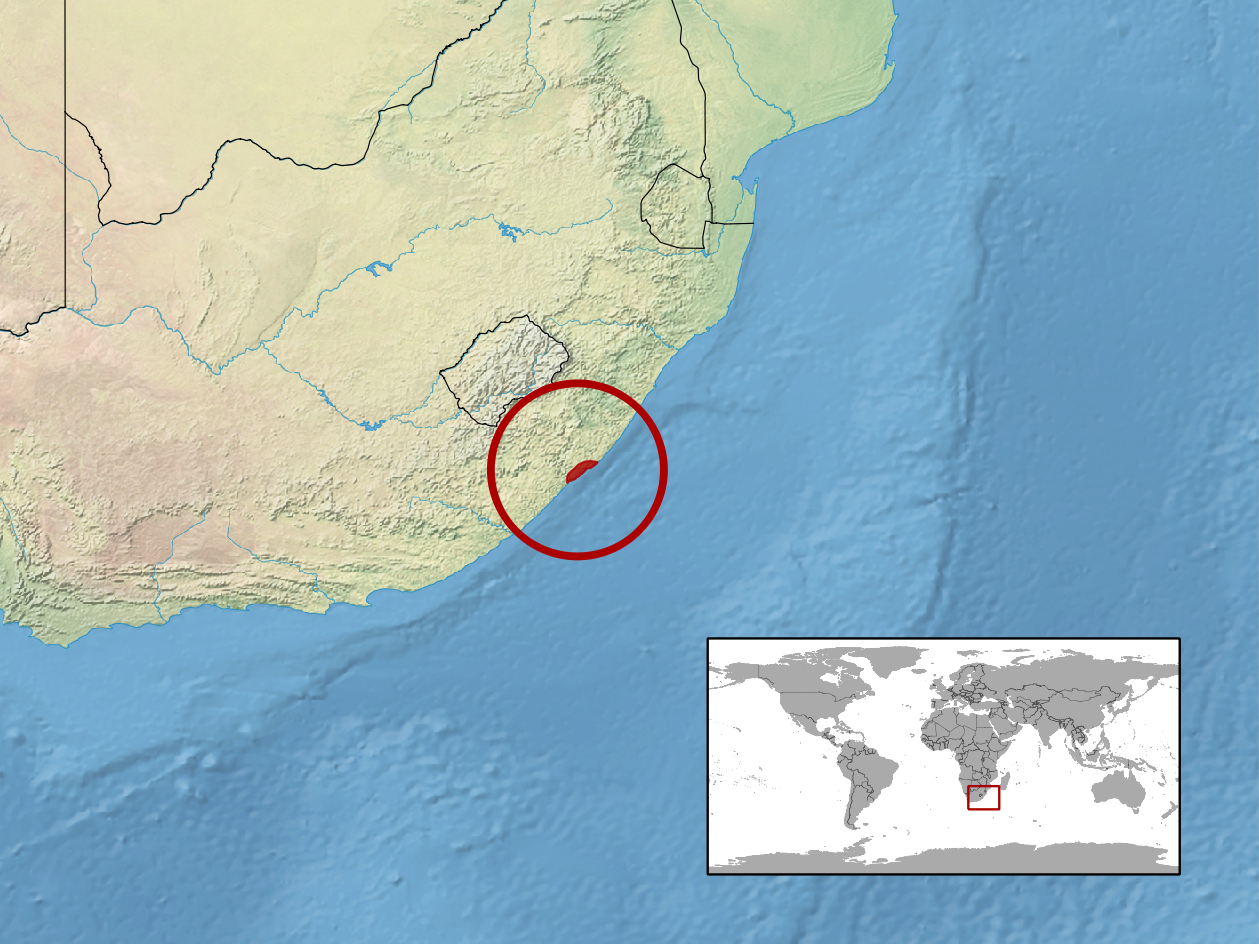 geographic distribution of Bradypodion caffer (Native: South Africa (Eastern Cape Province))